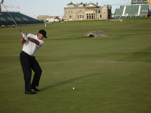 greg norman on the eighteenth at st andrews photographed by doug small, wiki user warebck